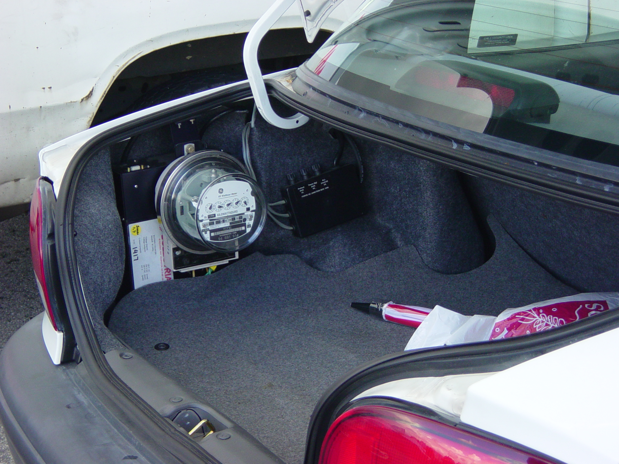 Solectria Force seen at a Vancouver EV show. Image by User:Leonard G.